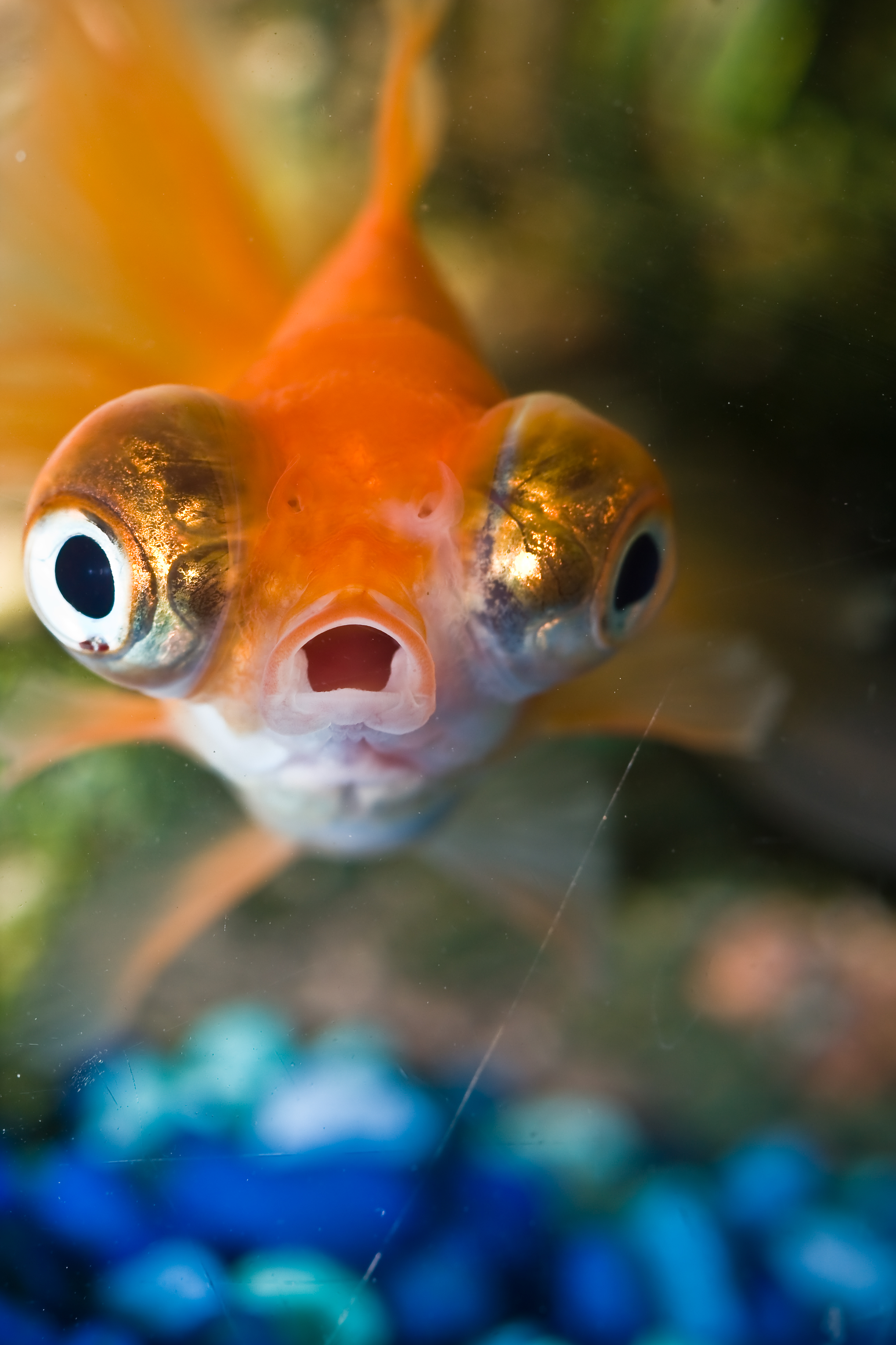 Day 4/365 I cleaned Lippy's tank today and I asked him how he liked it. He gave me this jaw-dropping expression! He must've been surprised and satisfied at how well I cleaned it this time! Hehe.